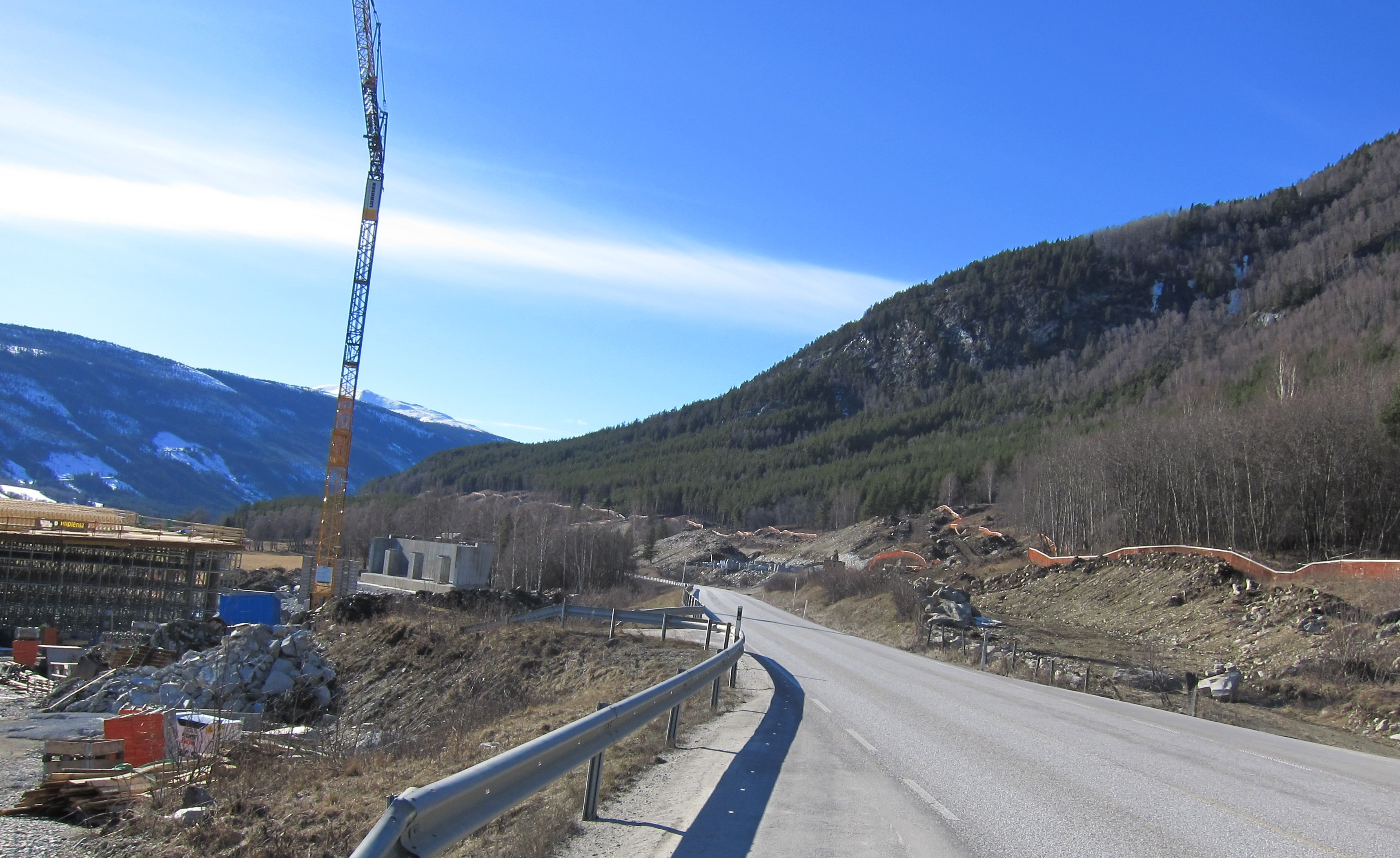 Road E6 construction work at Kvam, railway crossing